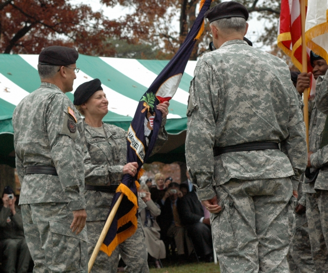 Gen. Ann E. Dunwoody takes command